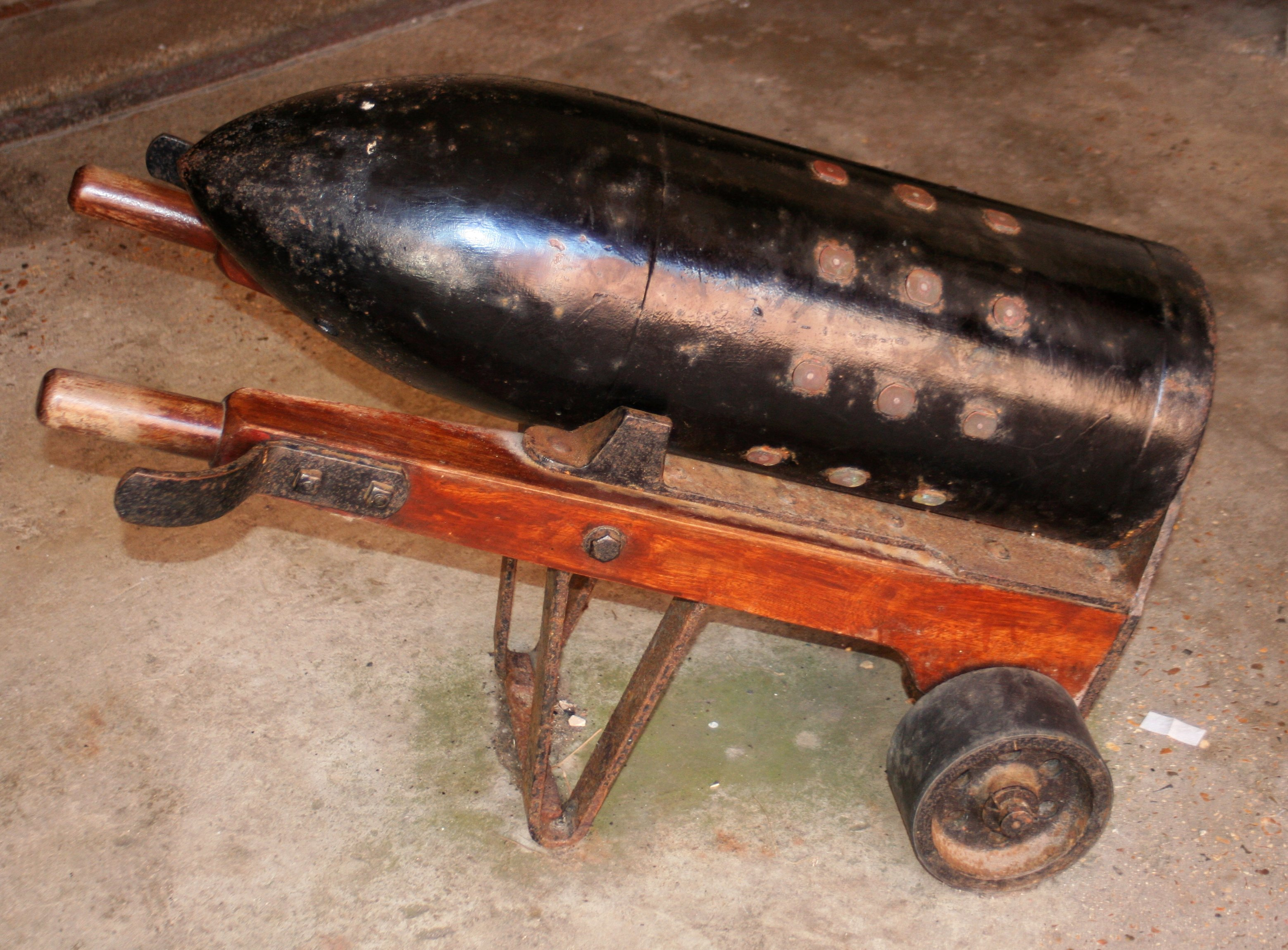 Shell for the RML 12.5 inch 38 ton guns at Hurst Castle